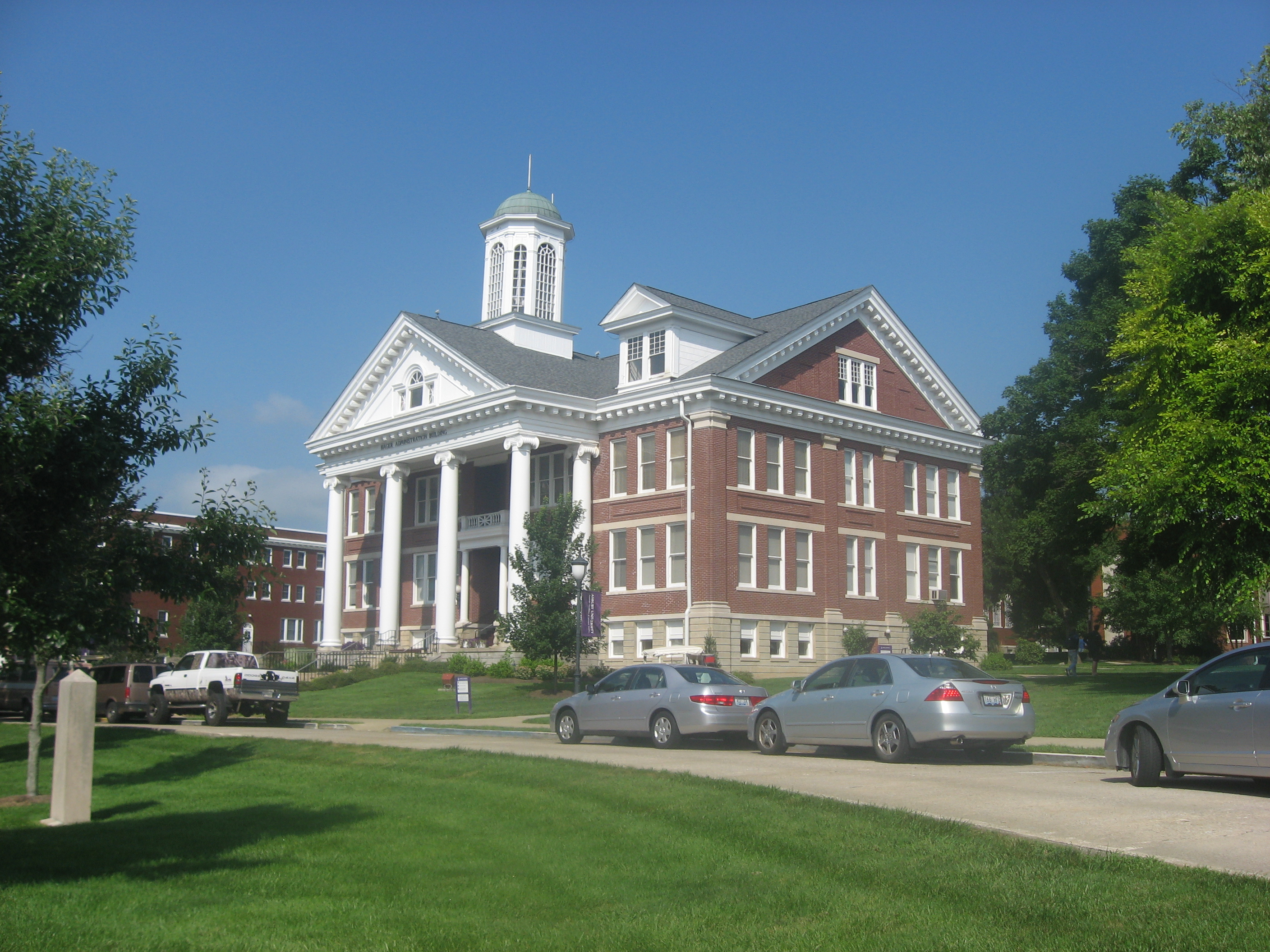 Front and northern side of the Hager Administration Building on the campus of Asbury College in Wilmore, Kentucky, United States. Built in 1910, the Georgian and Colonial Revival structure is listed on the National Register of Historic Places as the "Asbury College Administration Building".